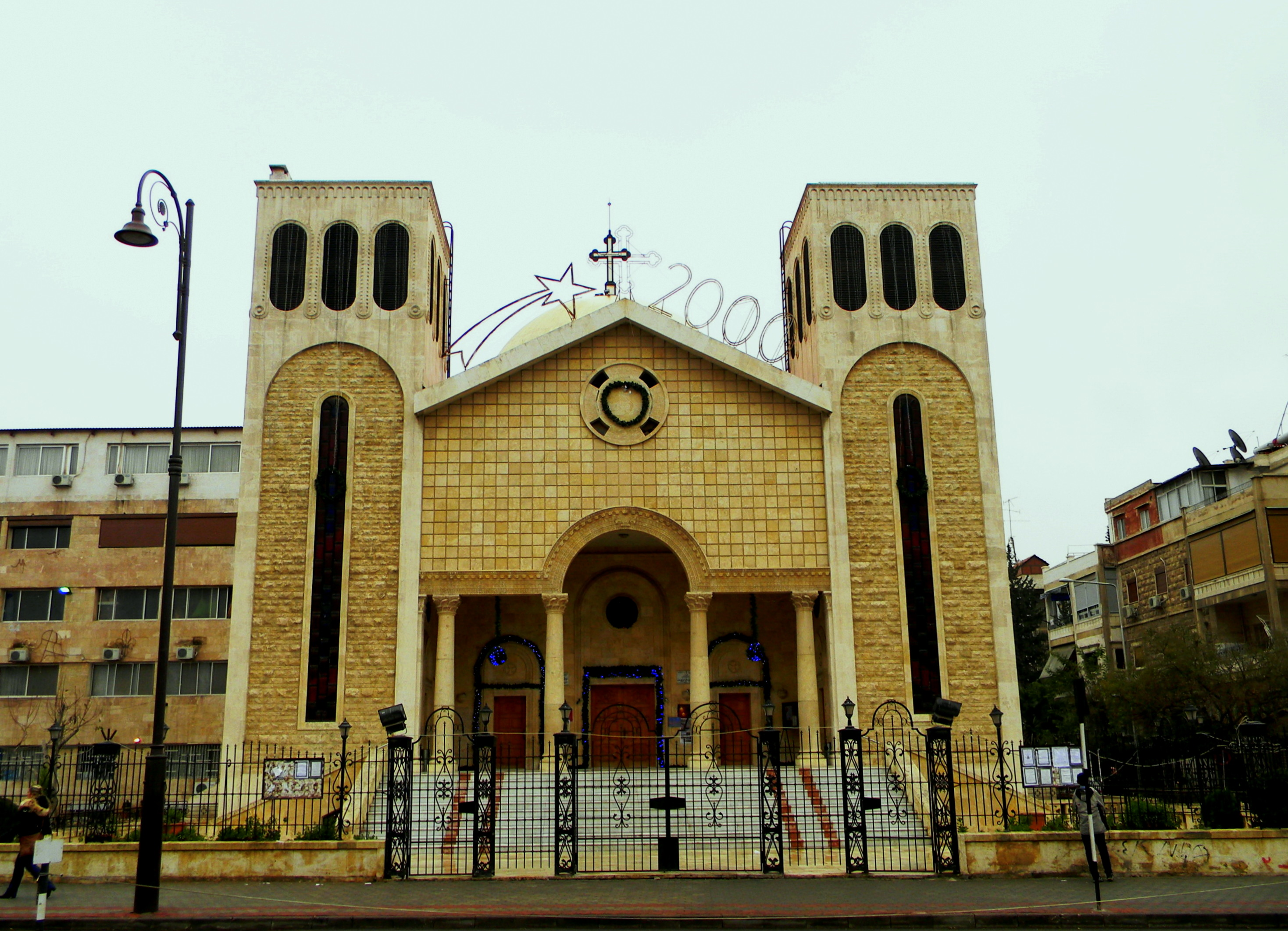 Saint Elijah the Prophets' Greek Orthodox Cathedral, Aleppo.